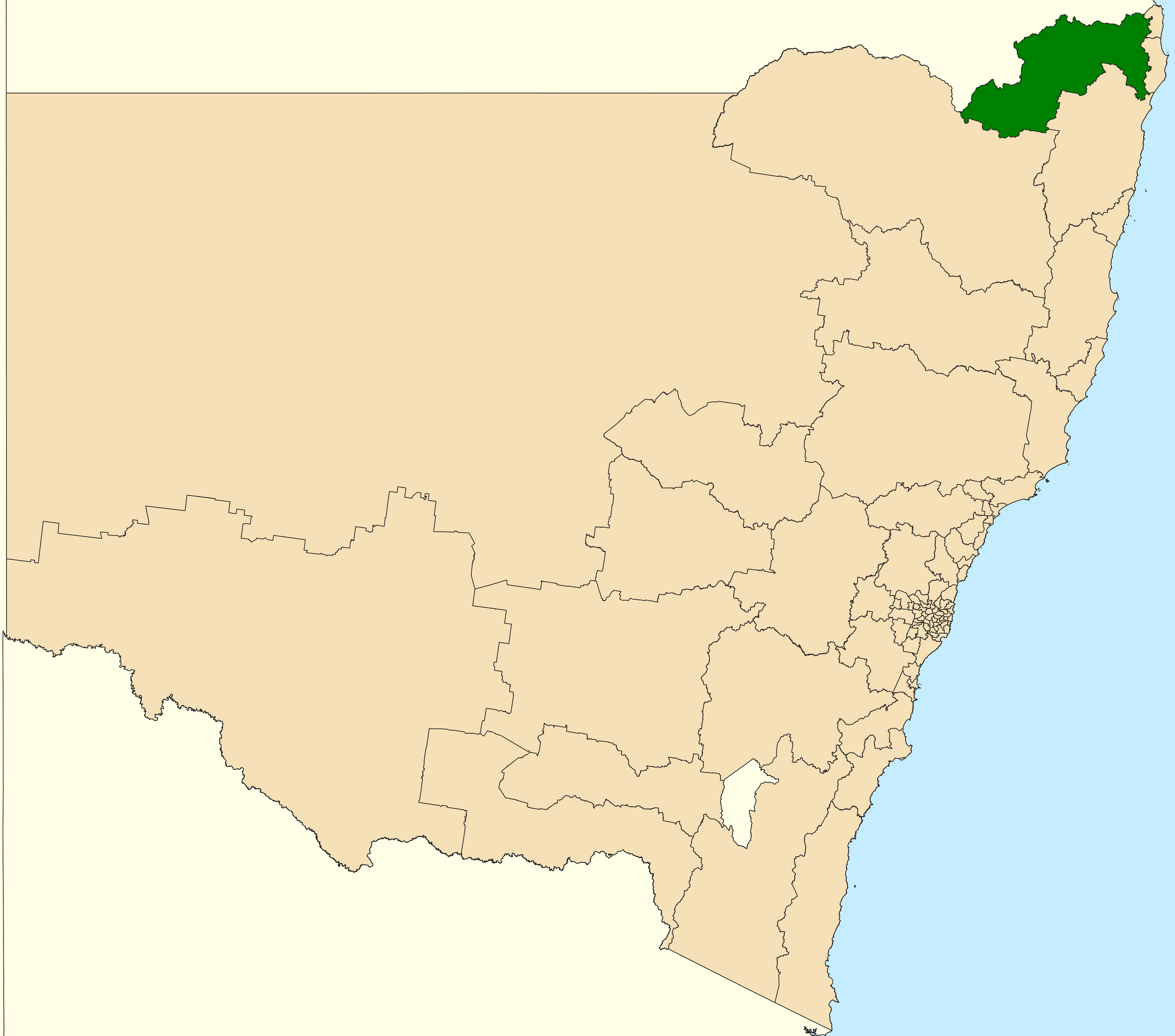 Location of the state electoral district of Lismore (dark green) in New South Wales as of the 2019 New South Wales state election. Incorporates or developed using Administrative Boundaries ©PSMA Australia Limited licensed by the Commonwealth of Australia under Creative Commons Attribution 4.0 International licence (CC BY 4.0).